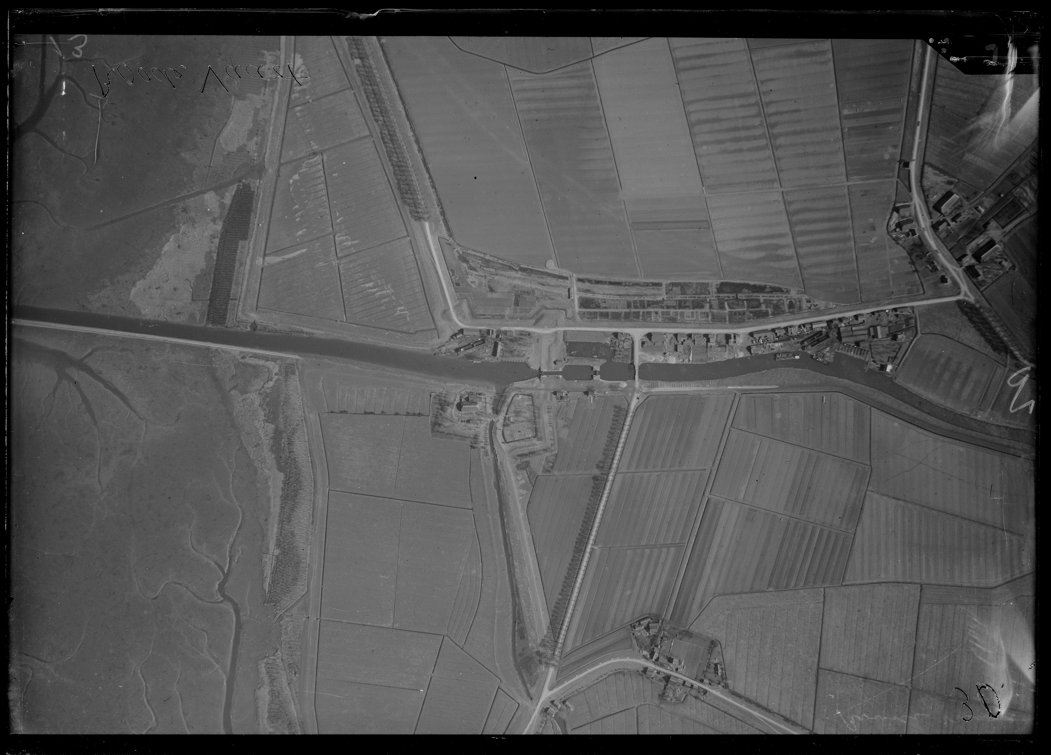 Aerial photograph of Roode Vaart, The Netherlands